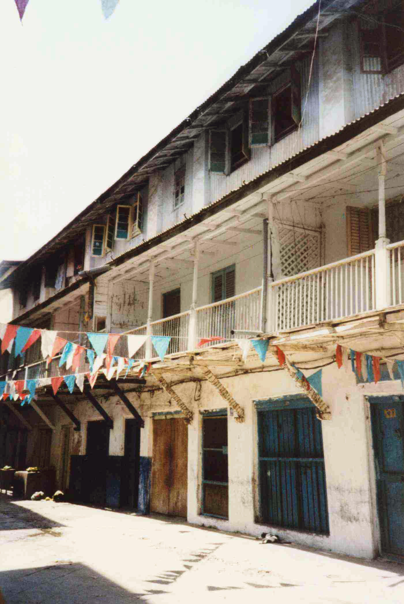 The house where Freddie Mercury was born — in Stone Town, Zanzibar City, Zanzibar Archipelago.